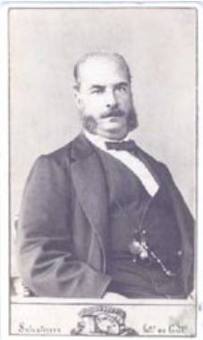 Jose Milla y Vidaurre in the 1860s.